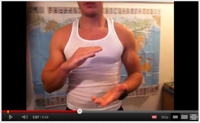 Randy Phillips speaking anonymously on YouTube